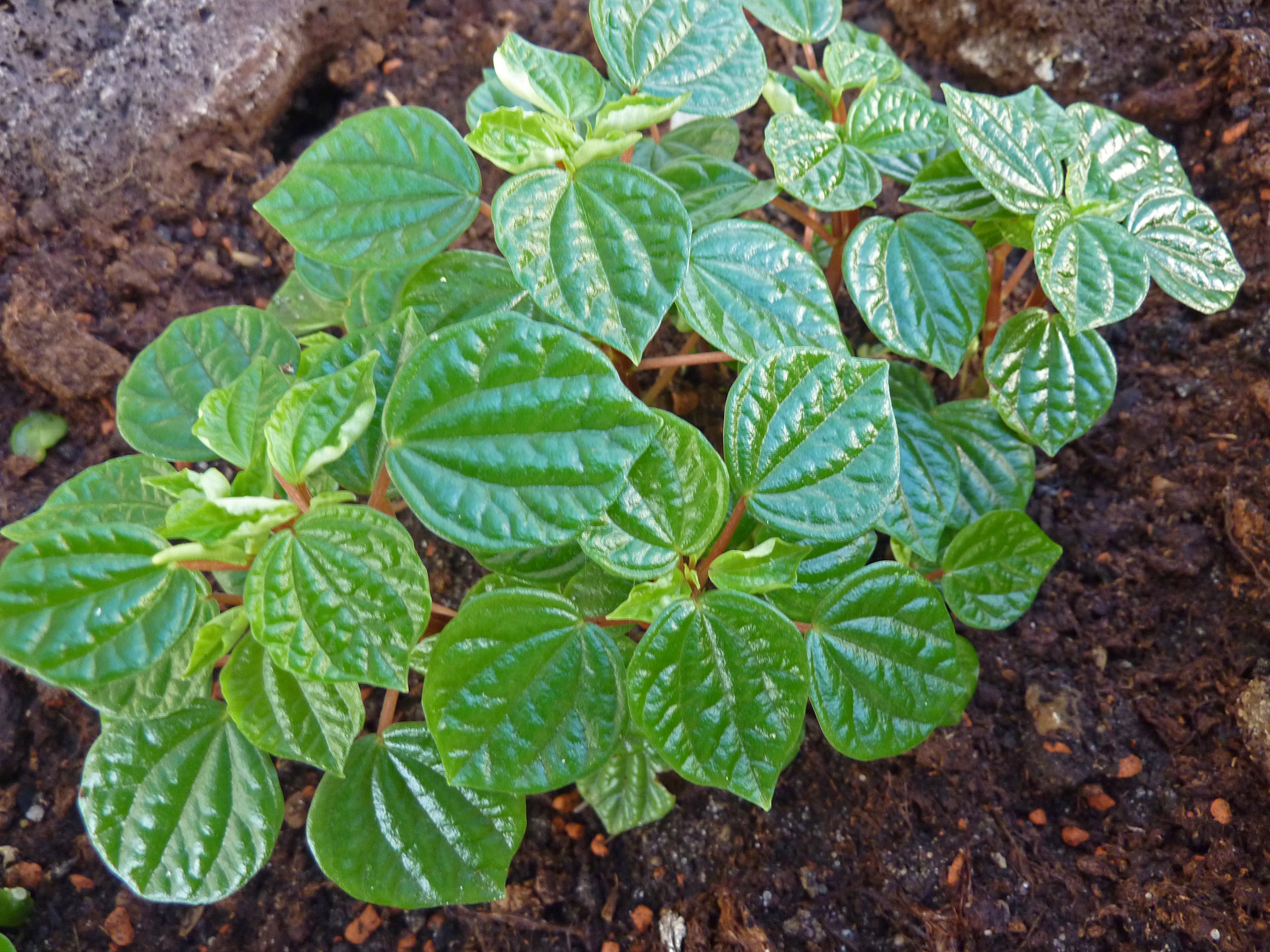 Peperomia meridana in the Botanical Garden, Berlin